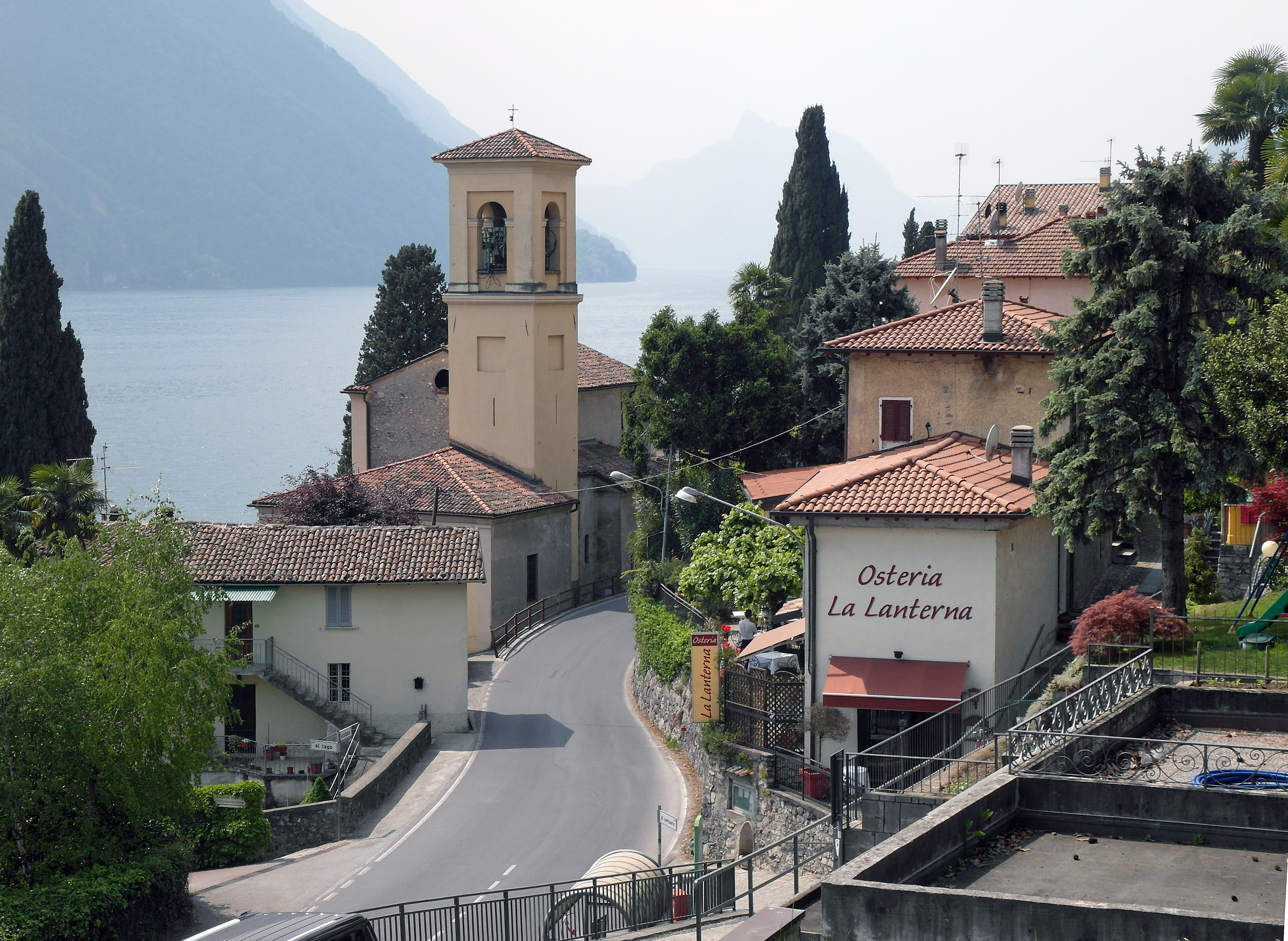 Cressogno Italy